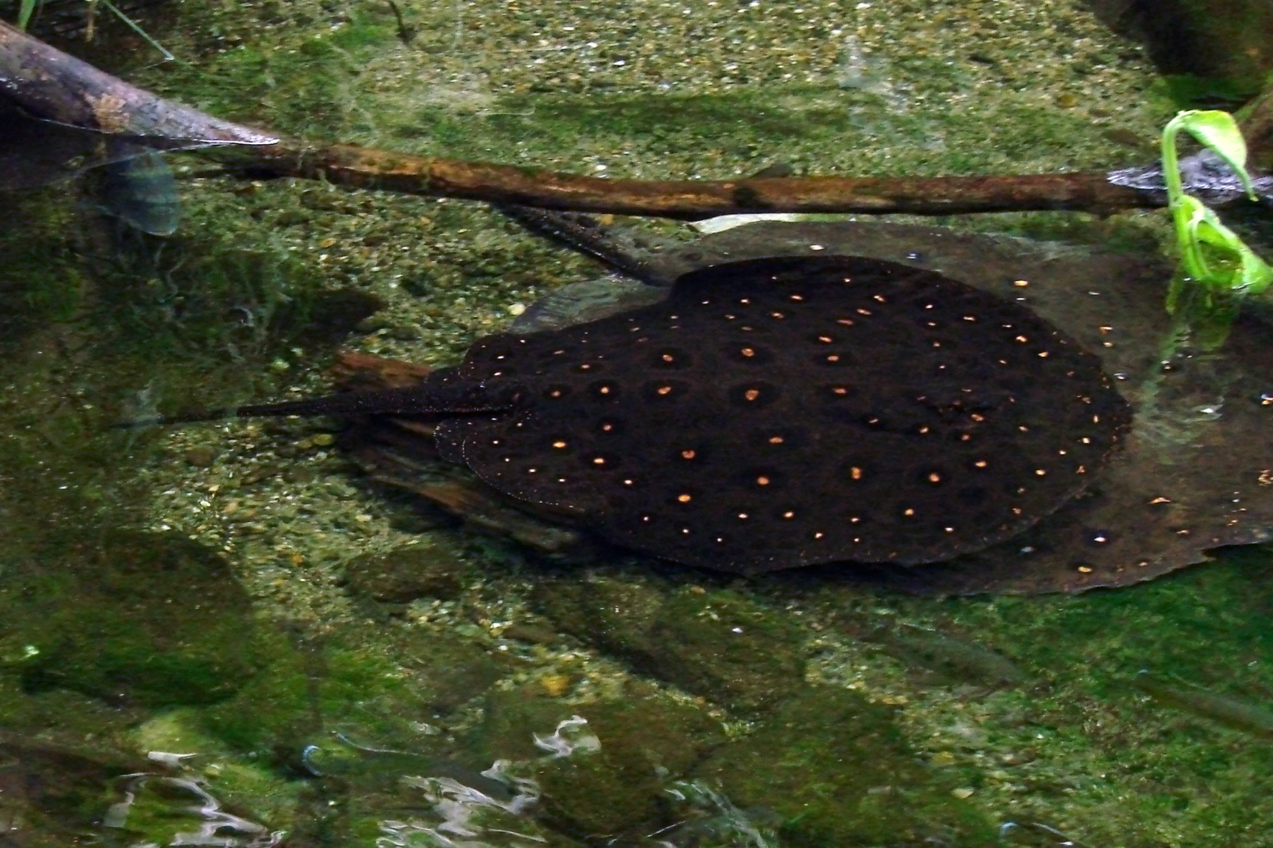 Two orange spotted stringrays (Potamotrygon motoro). ZooParc de Beauval,Loir-et-Cher,France.